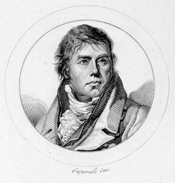 Johann Simon Mayr (1763-1845), italian composer